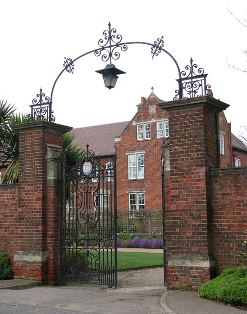 Entrance to Gresham's Senior School, founded in 1555 by Sir John Gresham, who converted Holt’'s Manor House into a Free Grammar School as a result of Henry VIII’s suppression of the Monasteries. It survived the Great Fire of 1708 which destroyed most of medieval Holt and was extensively enlarged and refurbished in Victorian times. At the turn of the twentieth century, Gresham’'s was refounded under the direction of a new and innovative headmaster, George Howson and the School moved to the existing site (gate pictured). The Senior School and Prep School are presently located along both sides of Cromer Road on the eastern edge of Holt. There are four boarding houses for boys and three for girls and a wide range of buildings which include Big School, the School Chapel, the Auden Theatre, the Cairns Centre, the School Library, the Music Centre, the Central Block, the Thatched Classrooms, the Reith Laboratories, the Biology Building, the Armoury, and others. In September 2005, Gresham's was one of the leading British schools.